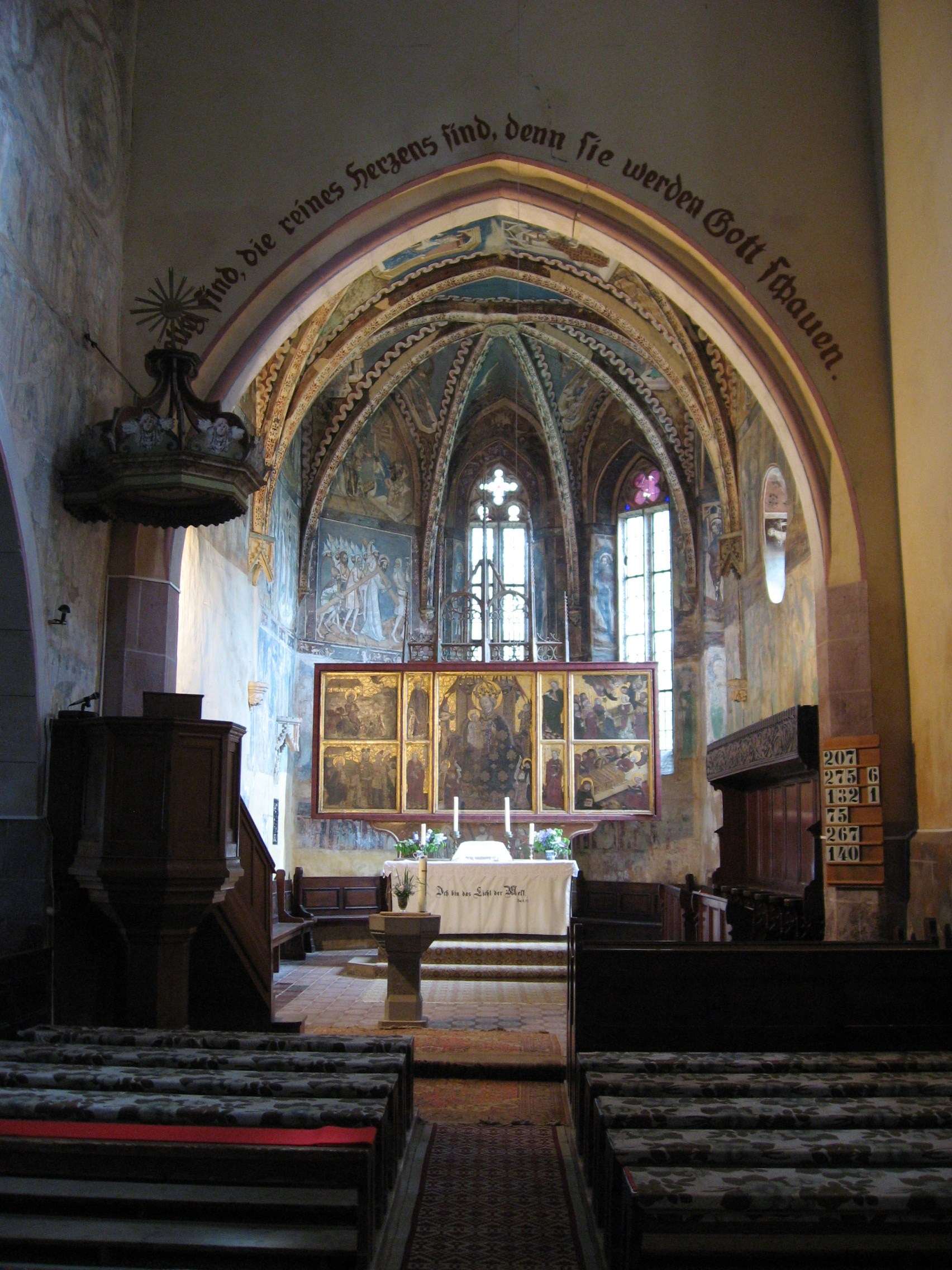 Saxon fortified church in Mălâncrav (German: Malmkrog, Hungarian: Almakerék), view of the nave towards the altar, northern wall with frescos from pre-Reformation time is on the left